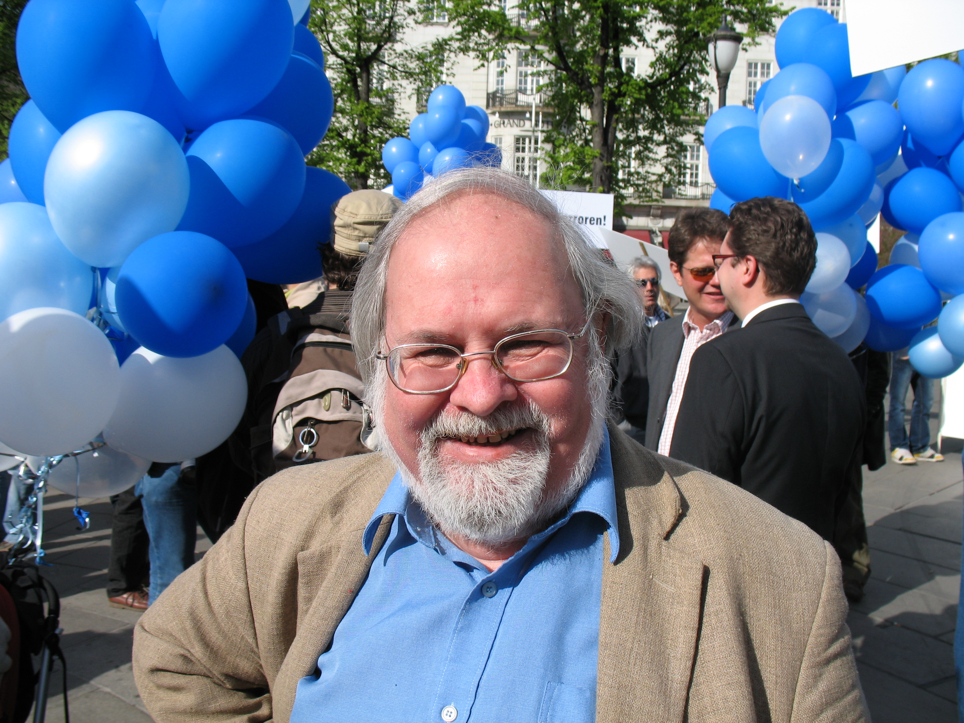 Norwegian politician Jan Simonsen.